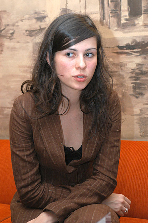 German actress Nora Tschirner at the premiere of her movie Soloalbum